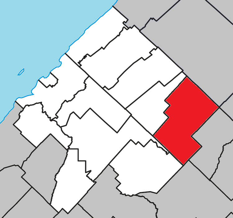 Location of Saint-Guy, Quebec within Les Basques Regional County Municipality.